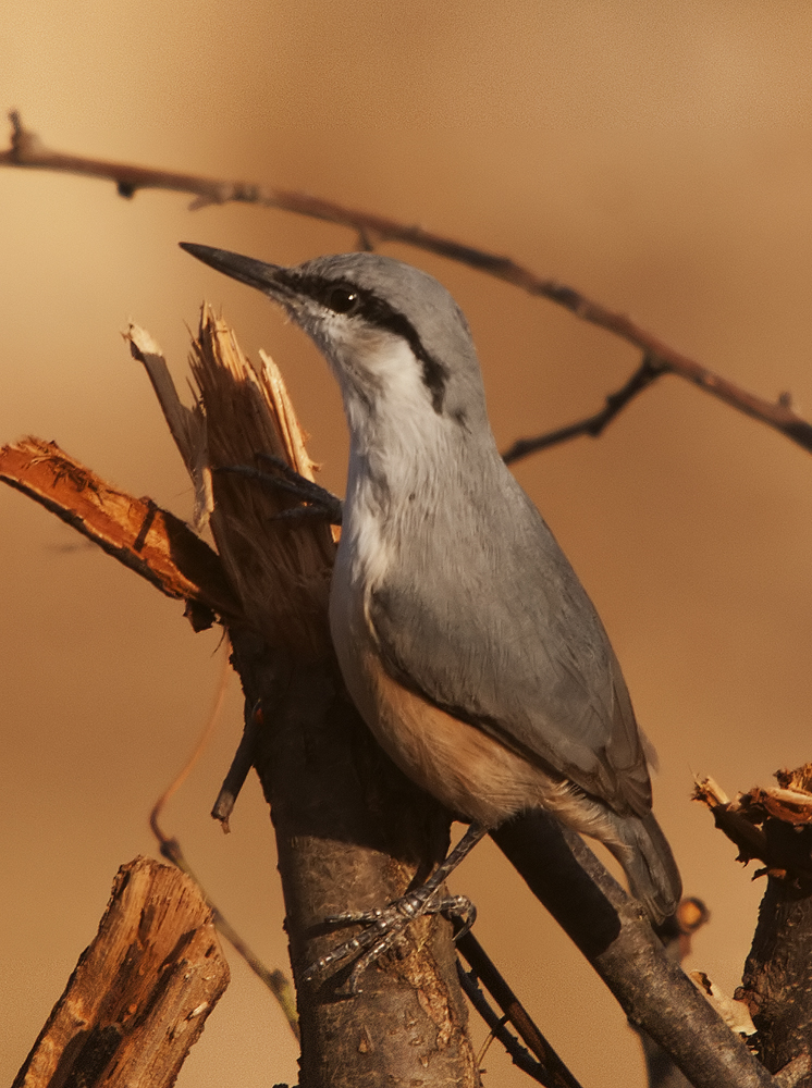 Rock nuthatch in Savur, Mardin Province, Turkey